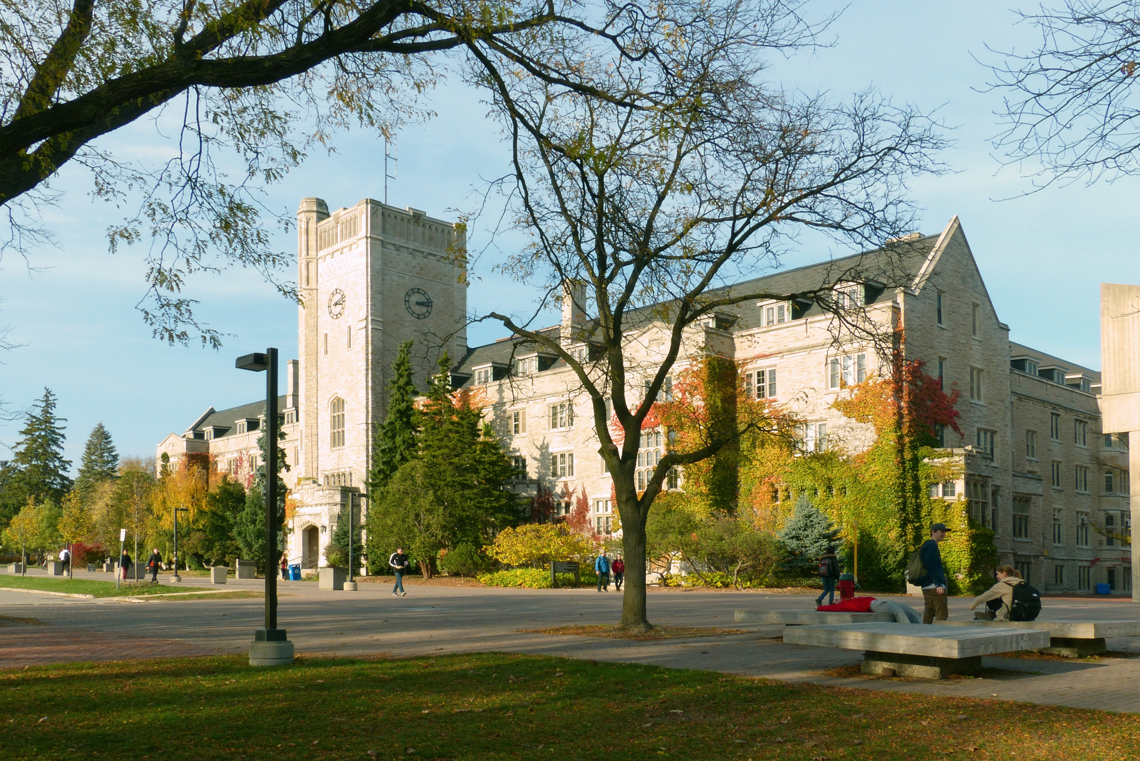 Johnston Hall from Alumni Walk. Johnston Hall was the headquarters building for RCAF No. 4 Wireless School and RCAF Station Guelph. Many of the residential school buildings commandeered by the RCAF look a lot like Johnston Hall.